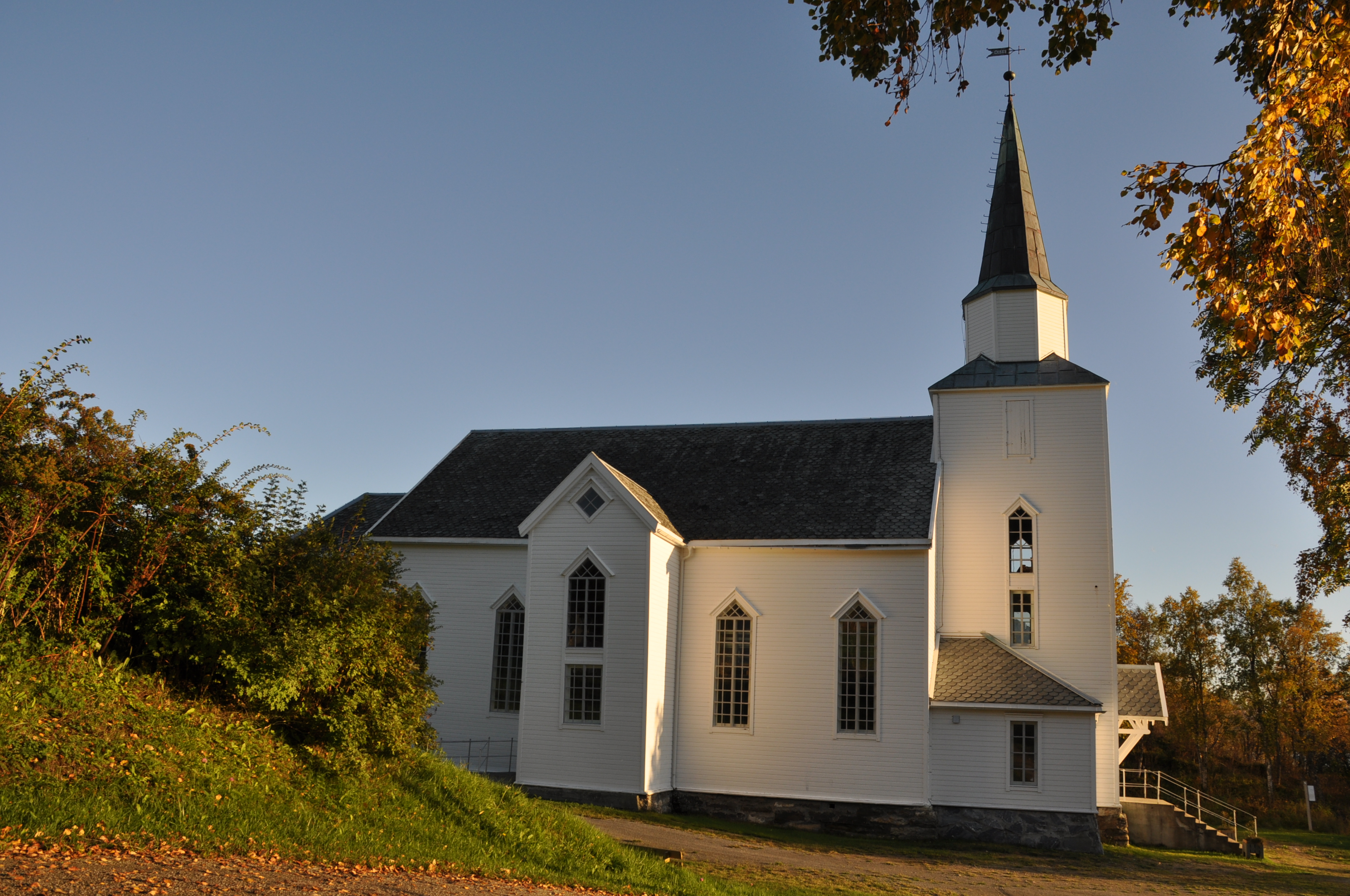 The church in Dyroey , Troms. Built in 1880. architect: Håkon Mosling Coordinates: 69°2′20″N 17°29′38″Ø